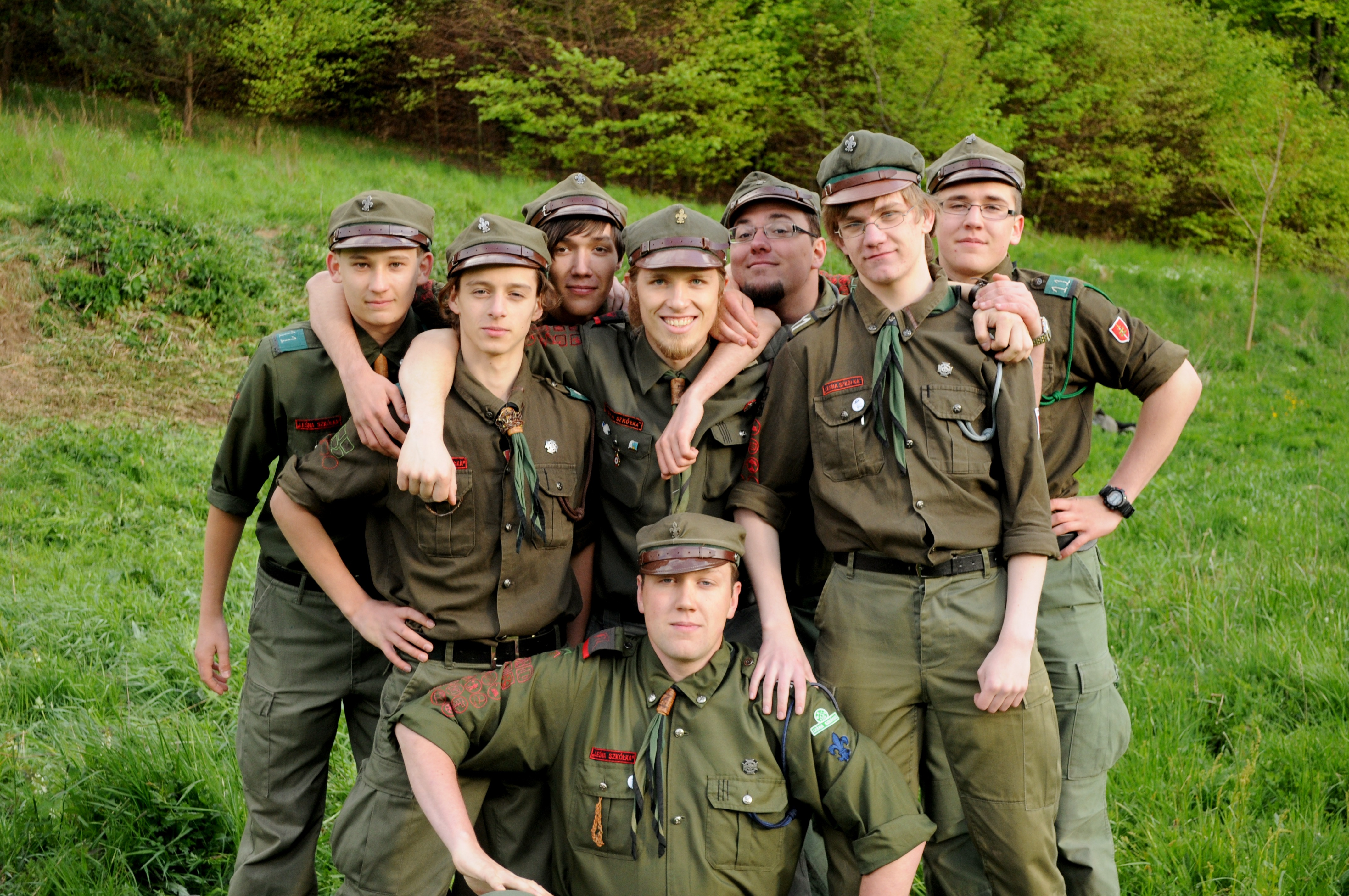 ZS "Wilki" - patrol of 11 NGDH "Sherwood" - scout troop of Gdynia.